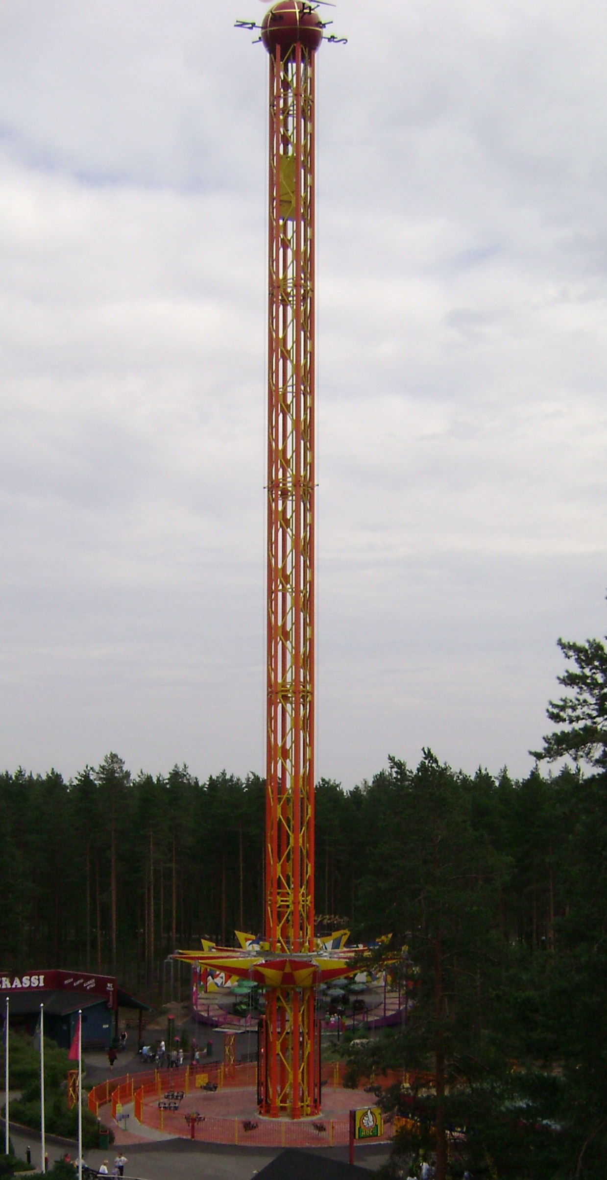 Star Flyer in Tykkimäki amusement park, Kouvola, Finland.